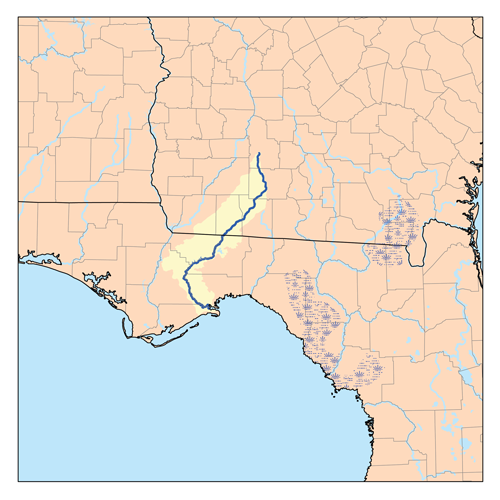 This is a map of the Ochlockonee River watershed. I, Karl Musser, created it based on USGS data.